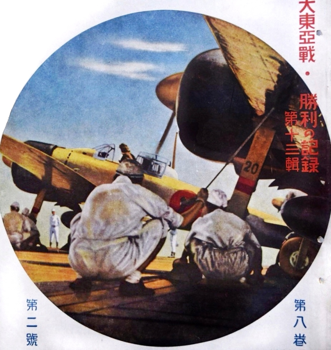 Zero Fighters from the Kaga Aircraft Carrier taking off to attack Allied Forces in New Guinea, January 1942.